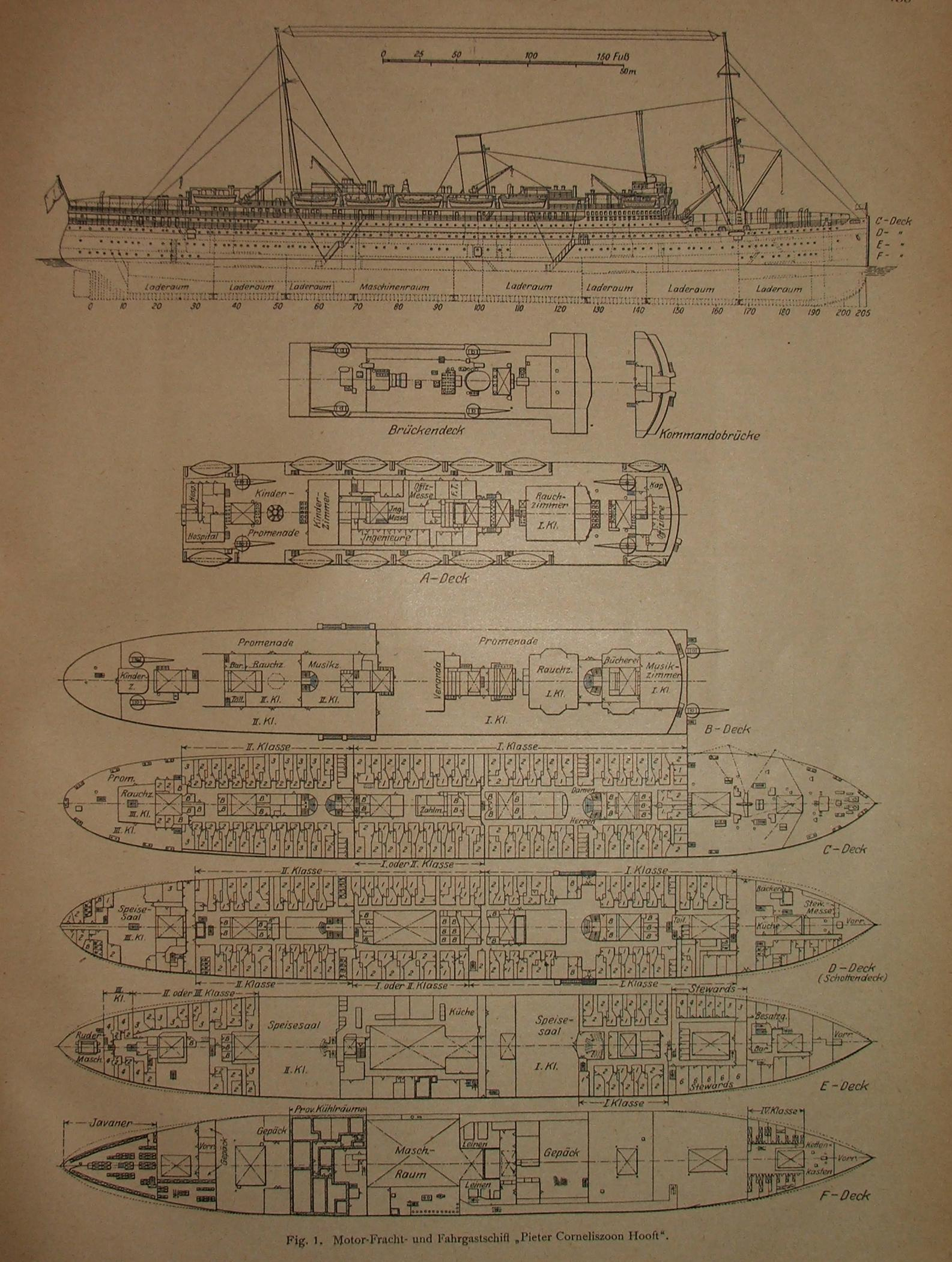 Deckpläne der Pieter Corneliszoon Hooft